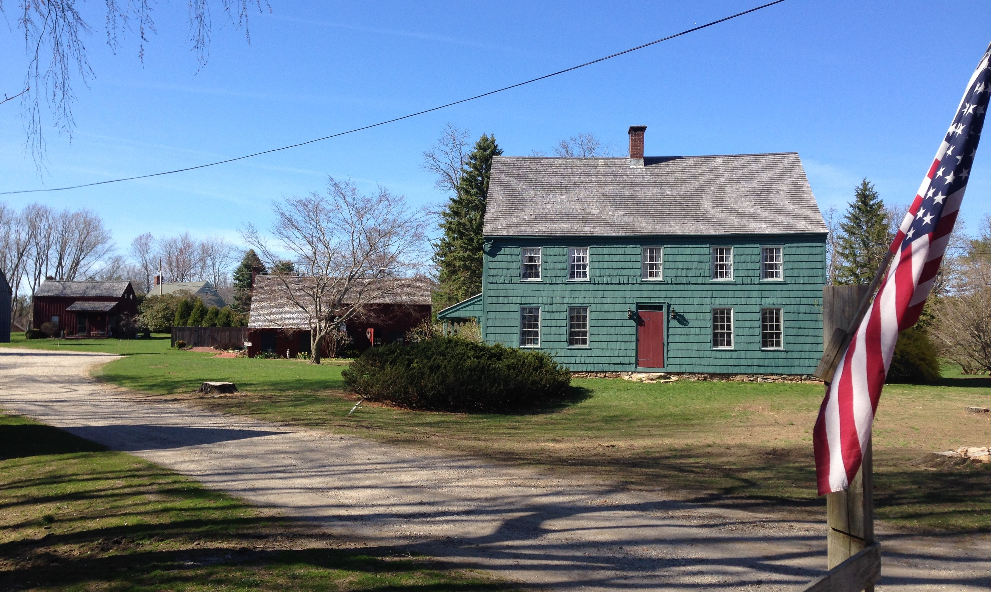 The Davis homestead in Mount Sinai, New York. One of the oldest extant homes in the region, its original section dates prior to 1720